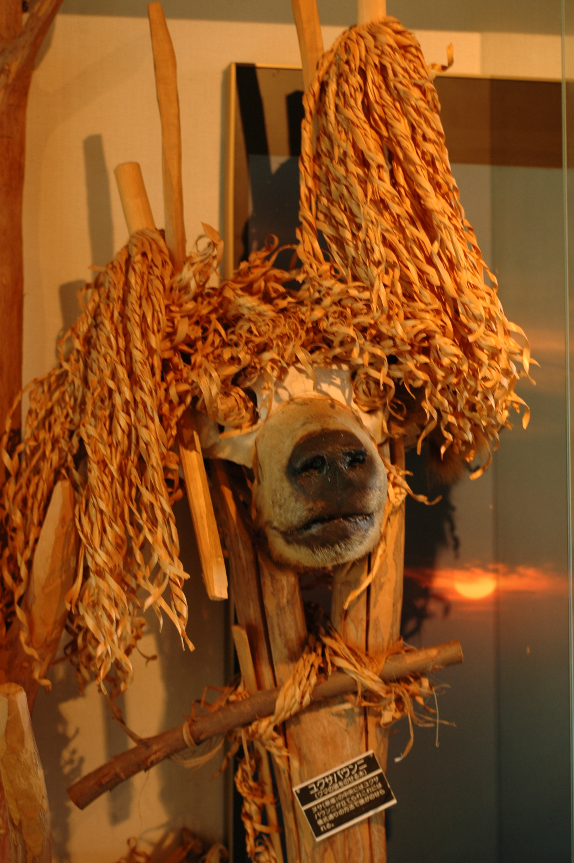 Ainu Museum in Noboribetsu bear park. Noboribetsu, Hokkaido, Japan.